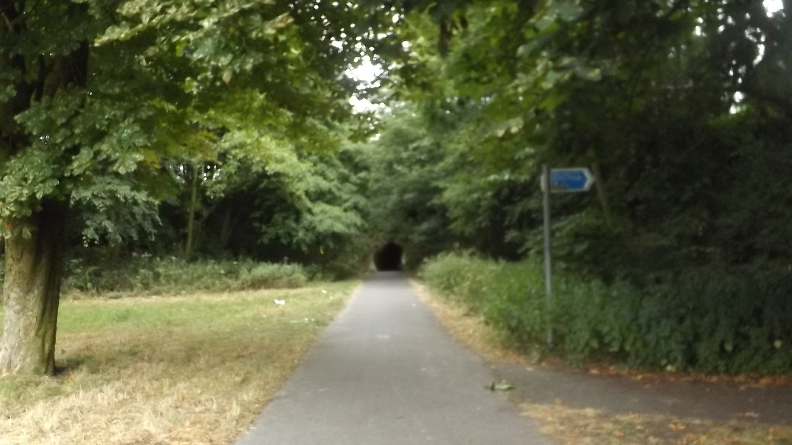 My own